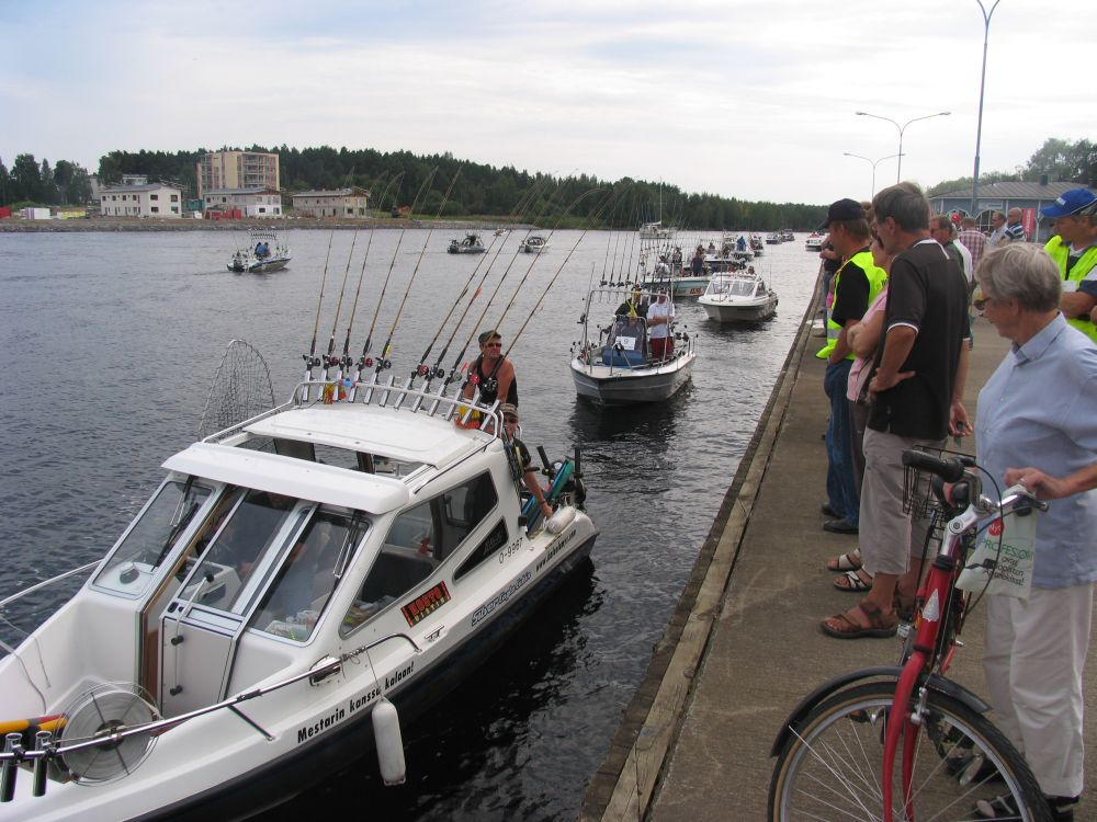 Finnish championships in trolling on Pielisjoki river in Joensuu, Finland